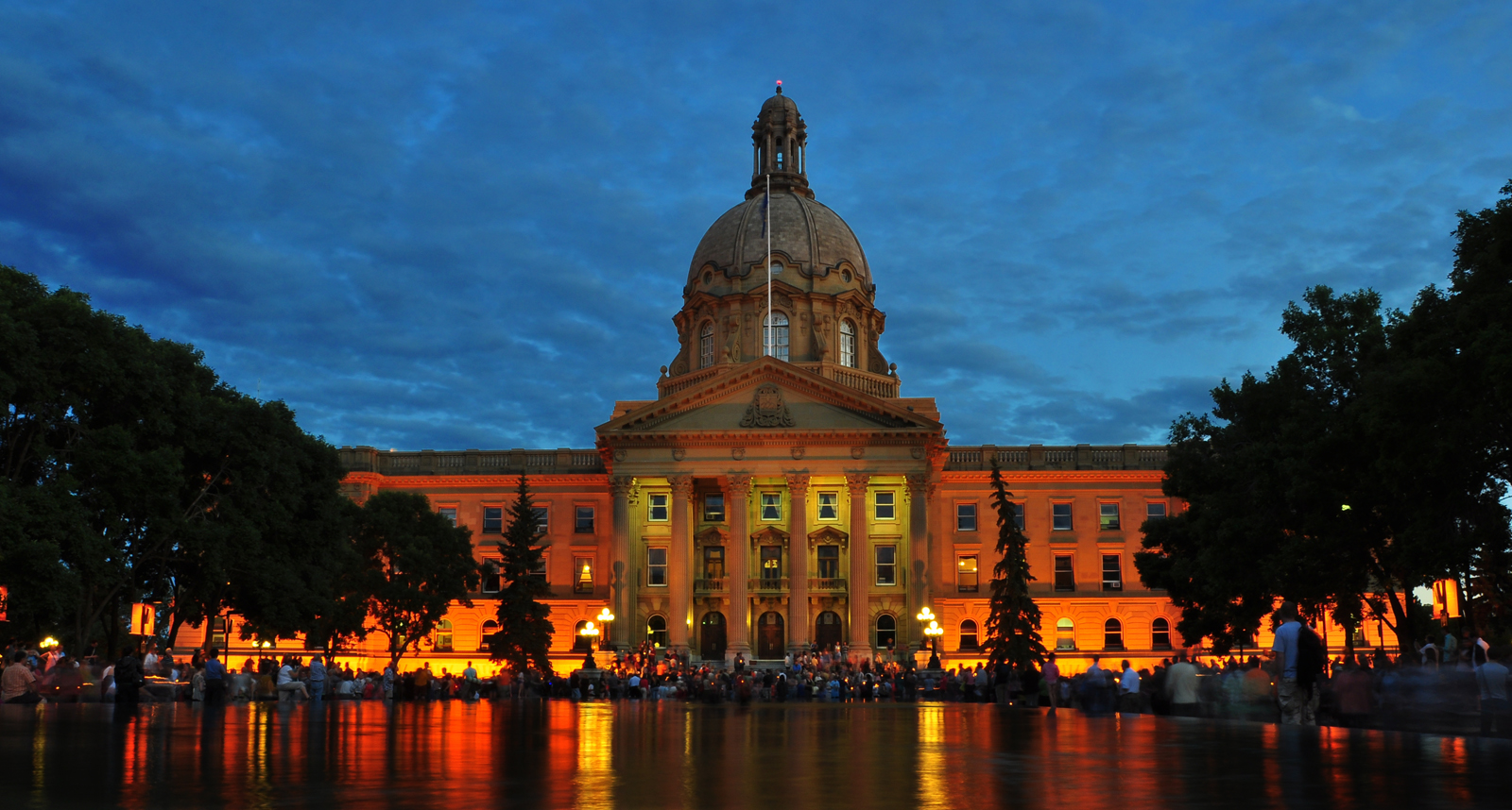 A candlelight vigil was held at the Alberta Legislative grounds last night for leader of the opposition Jack Layton. Over 2,000 people showed up to pay their respects. There will be a state funeral on Saturday. Flickr members Rachel, Nelson, and I took in the sober occasion. Exposure 2.5 Aperture f/22.0 Focal Length 18 mm ISO Speed 200 53° 32′ 4″ N, 113° 30′ 23″ W